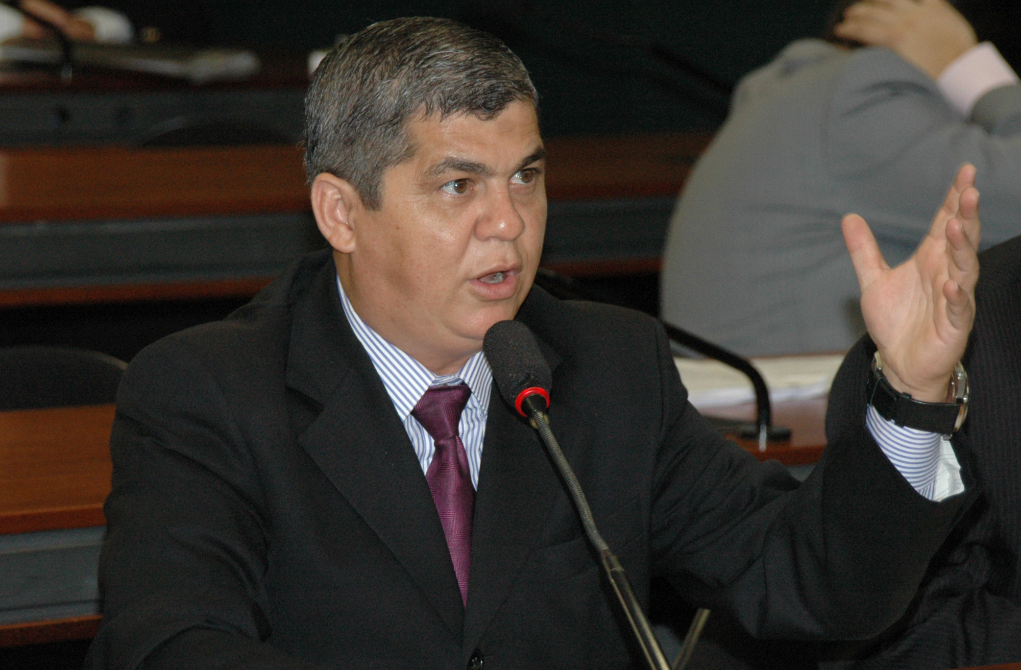 Brazilian politician Waldir Neves.